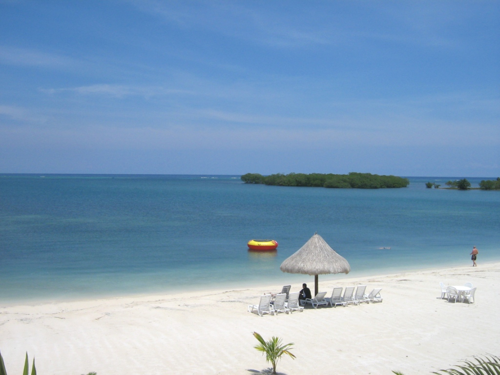 Turquoise Bay, Milton Bight, Roatan, Honduras